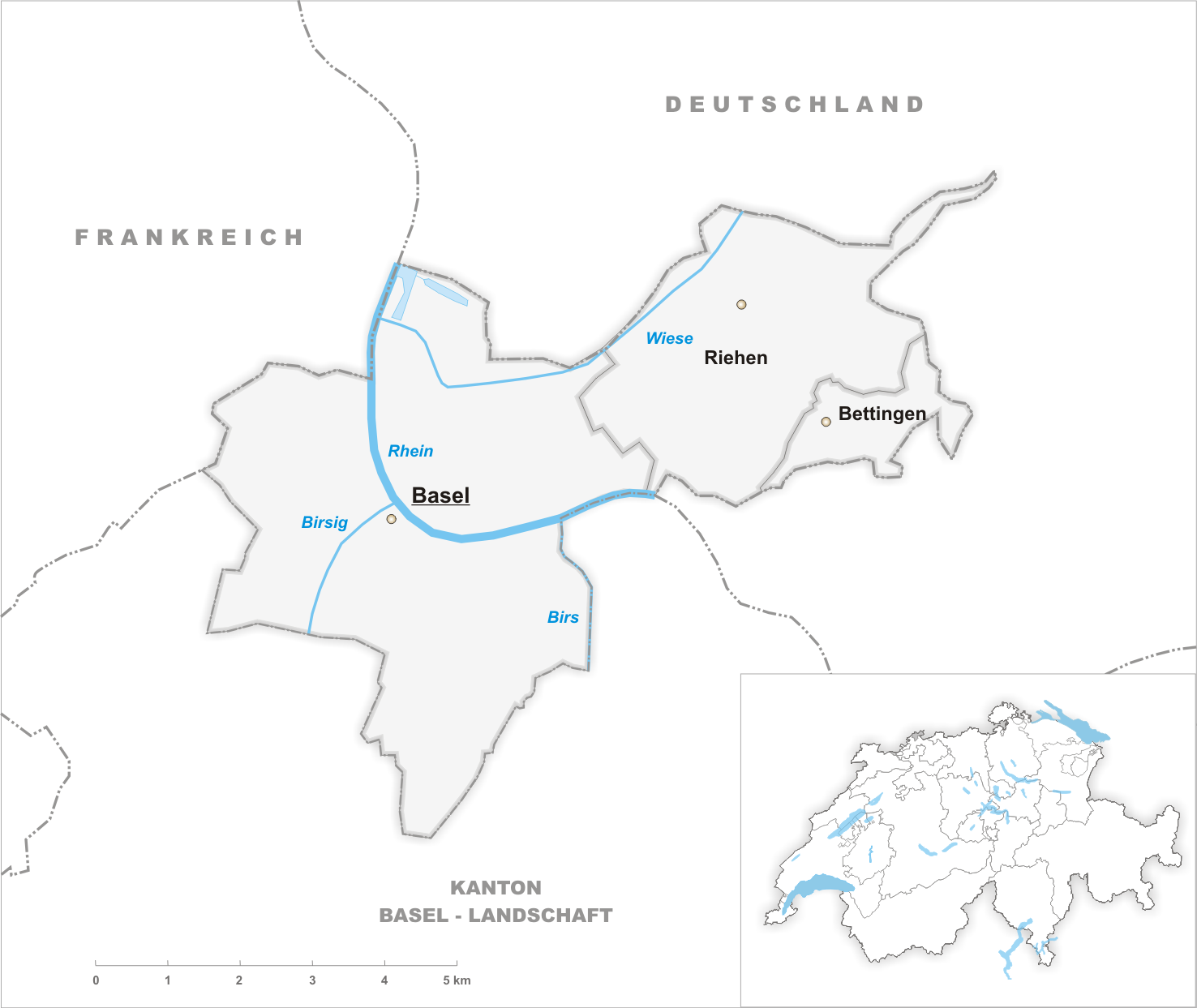 Municipalities in the canton of Basel-City